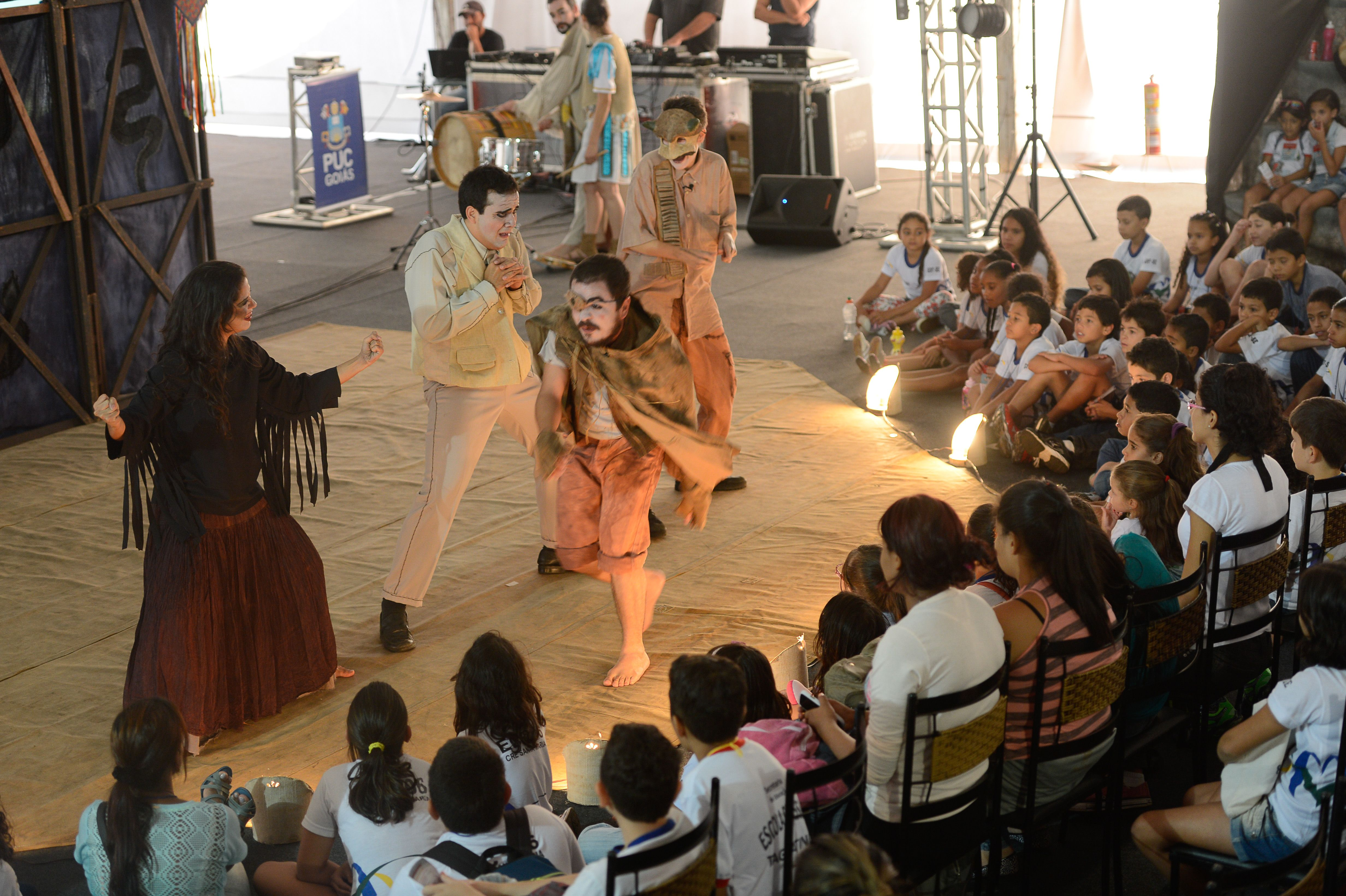 Photo by Fabio Rodrigues Pozzebom/Agência Brasil published under a CCBY3.0 license